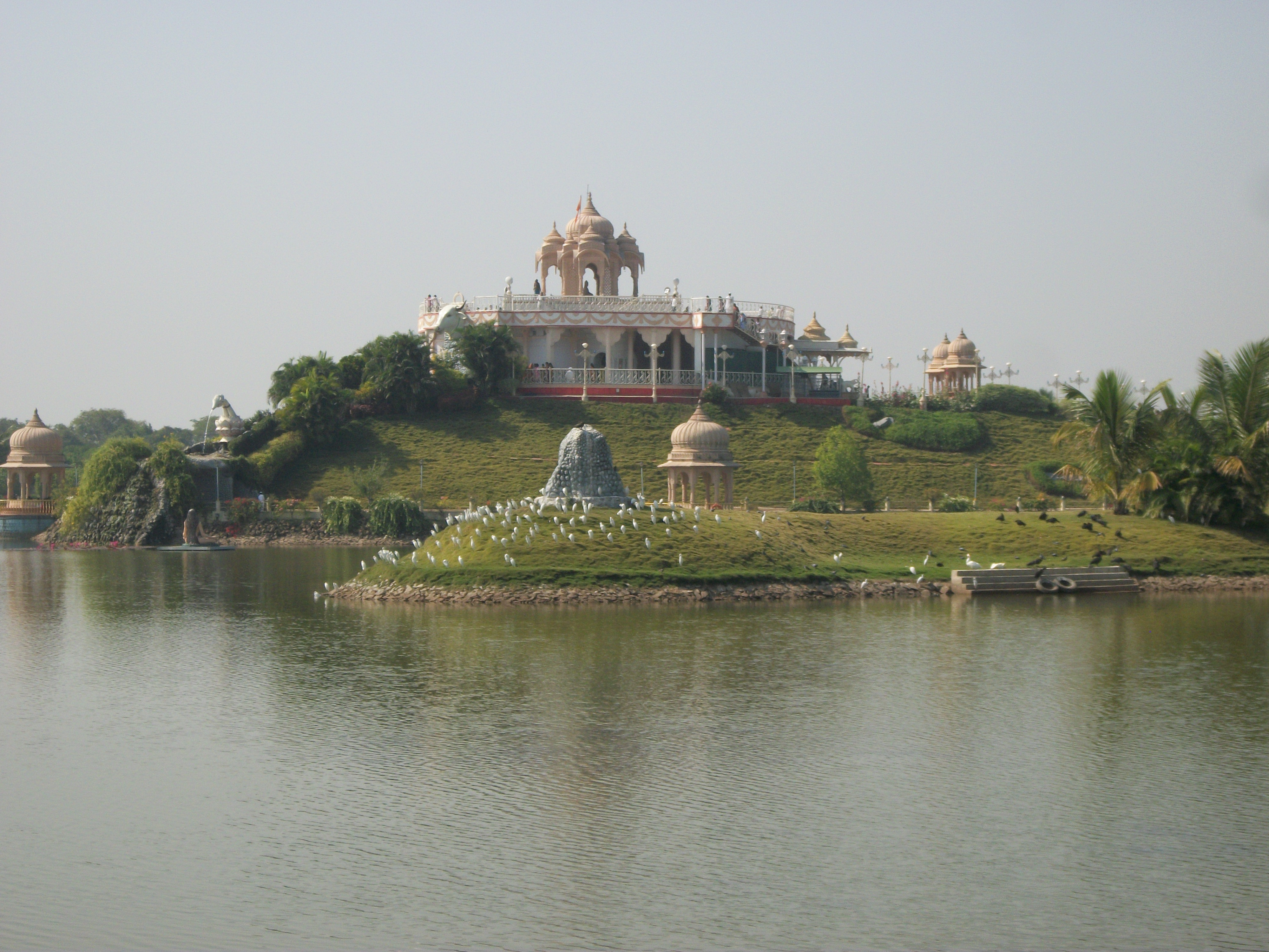 Vivekanand Dhyan Mandir (Meditation Center) at Anand Sagar Shegaon.JPG